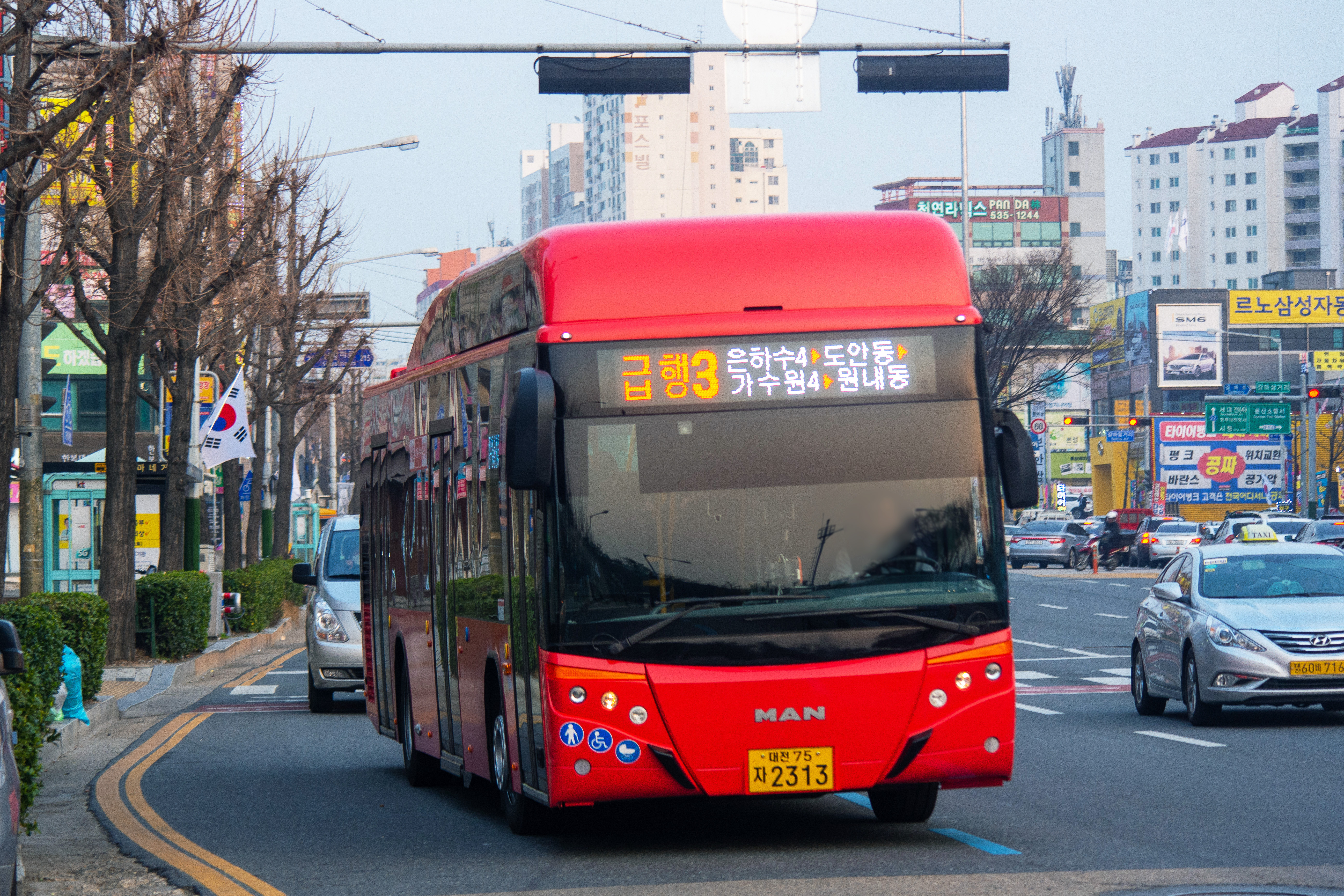 Daejeon city buses of Number 3 of Rapid